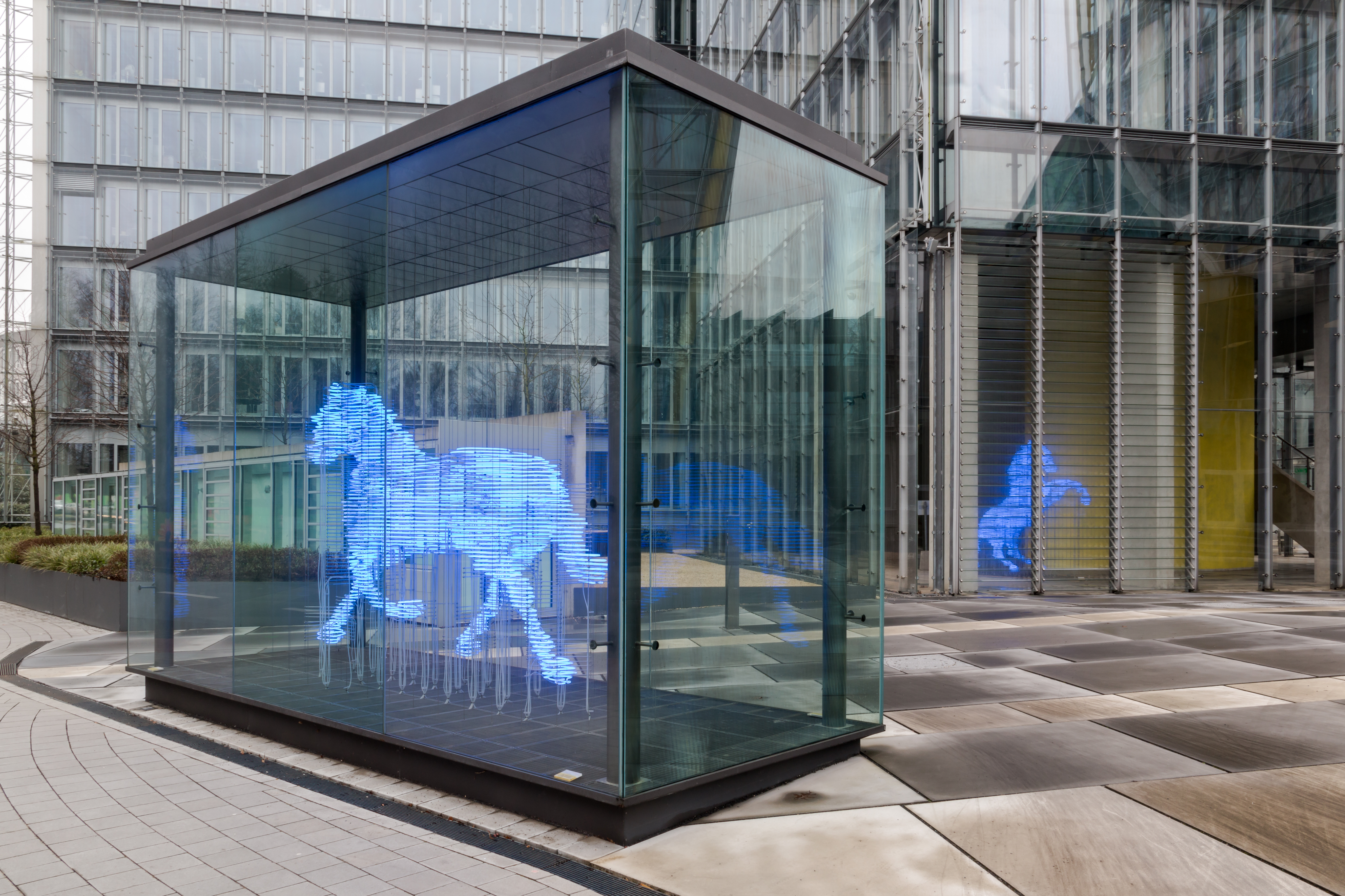 Sculpture “Zwei Pferde für Münster” (Stephan Huber, 2002), LVM insurance in Münster, North Rhine-Westphalia, Germany Sculpture TitleZwei Pferde für MünsterArtistStephan HuberDate2002